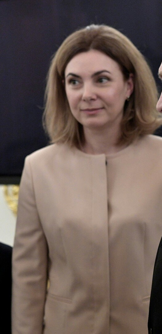 Moldovan First Lady Galina Dodon